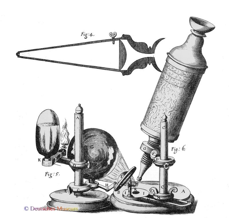 A microscope of Robert Hooke; from his Micrographia, London, 1664.